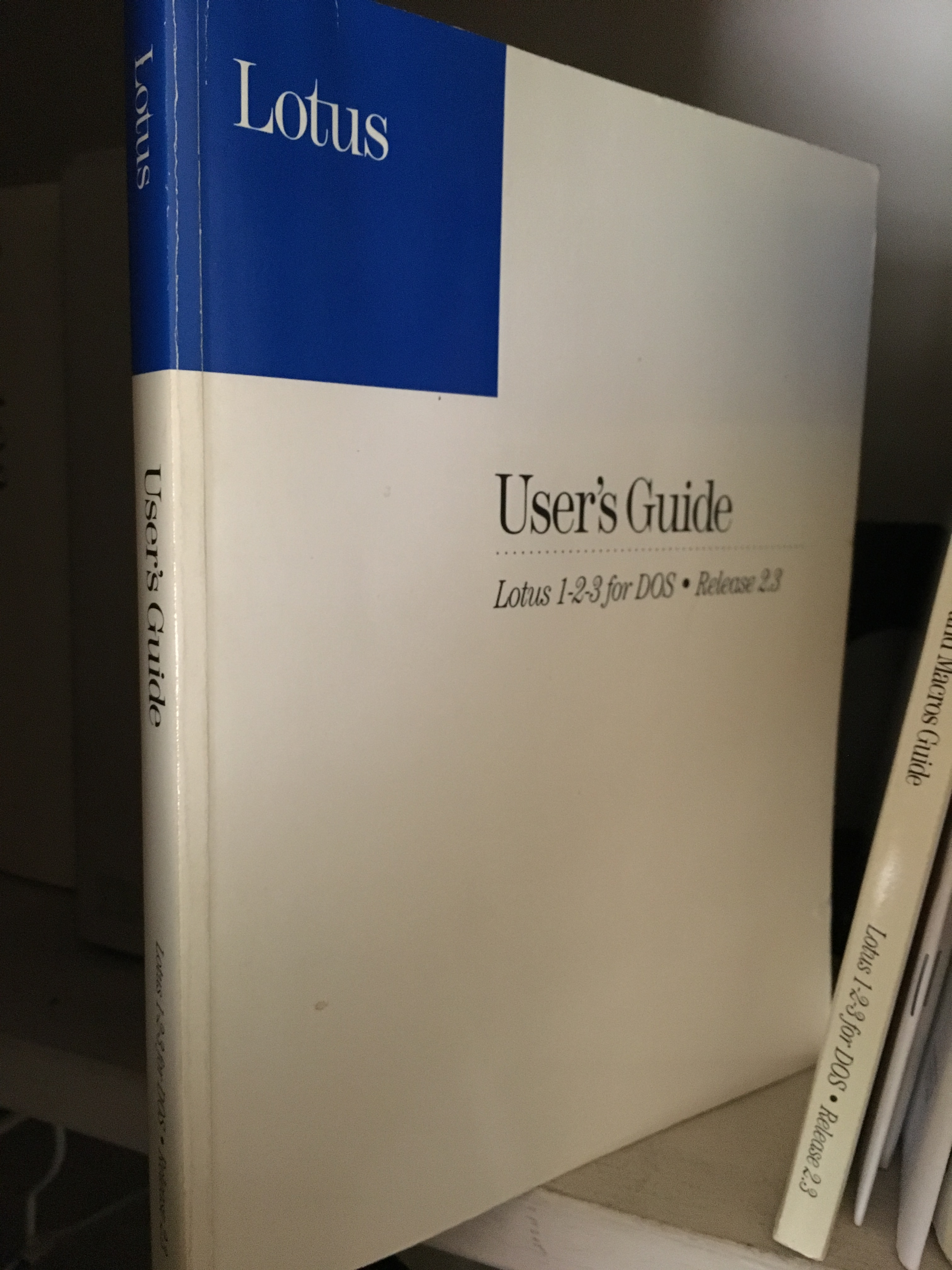 The User's Guide for Lotus 1-2-3 for DOS, Release 2.3. On the right, a portion of the spine of the accompanying Functions and Macros Guide can also be seen.